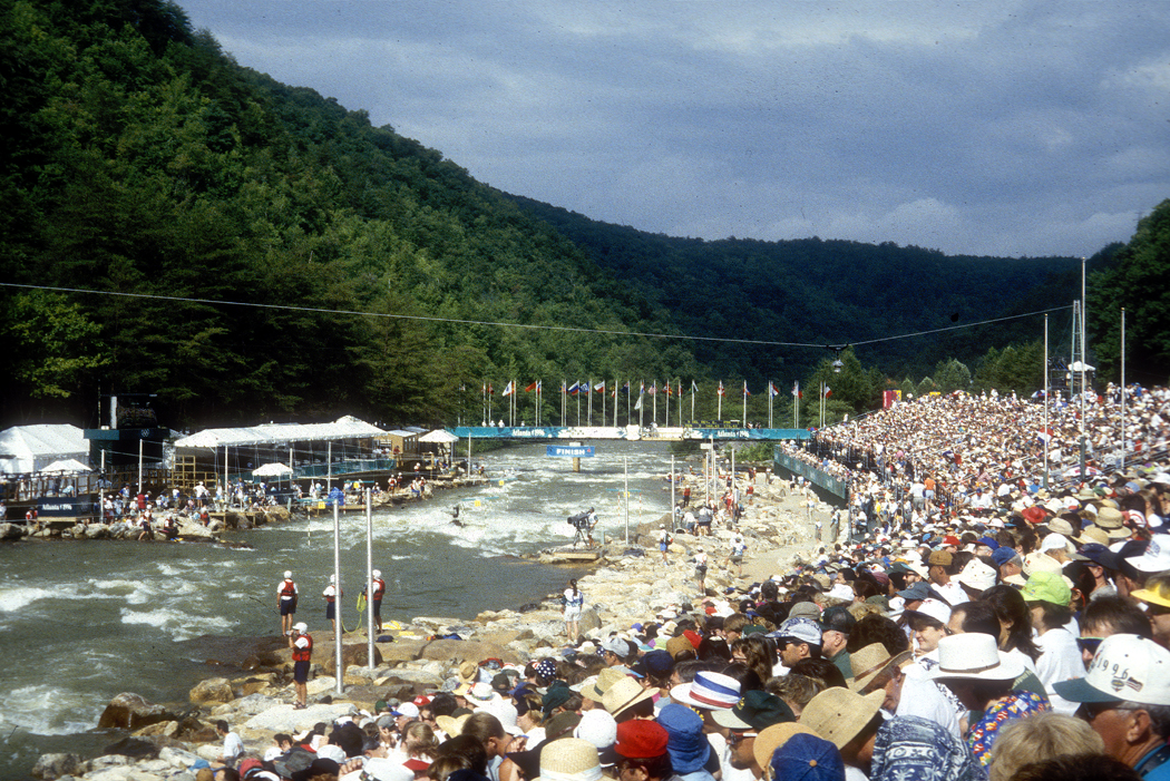 Finish line of the Canoe Slalom races of the 1996 Olympics, Modified Ocoee River, Tennessee.